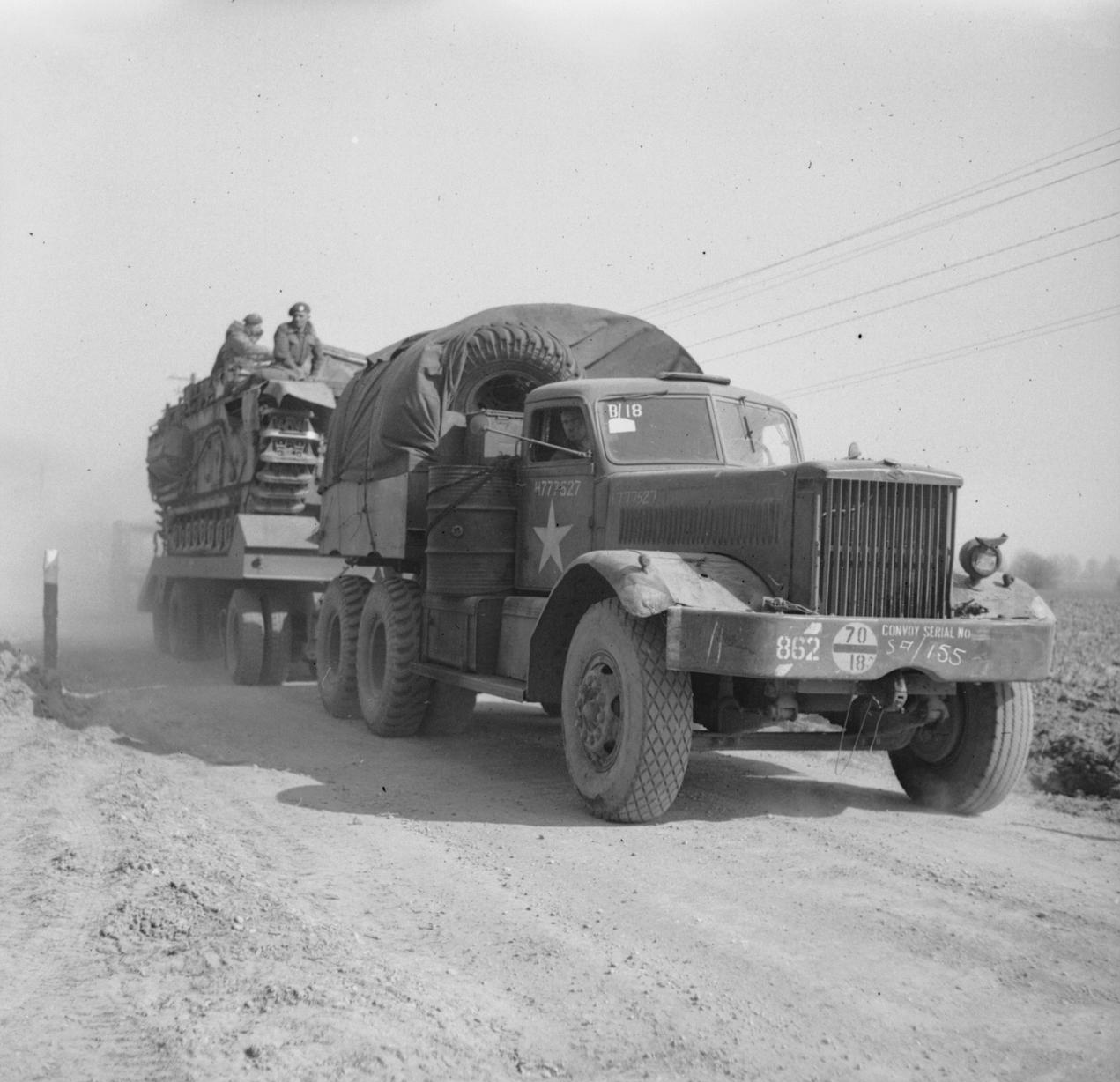 Diamond T Model 980 tractor towing a trailer loaded with a Churchill tank during preparations for crossing the Rhine.